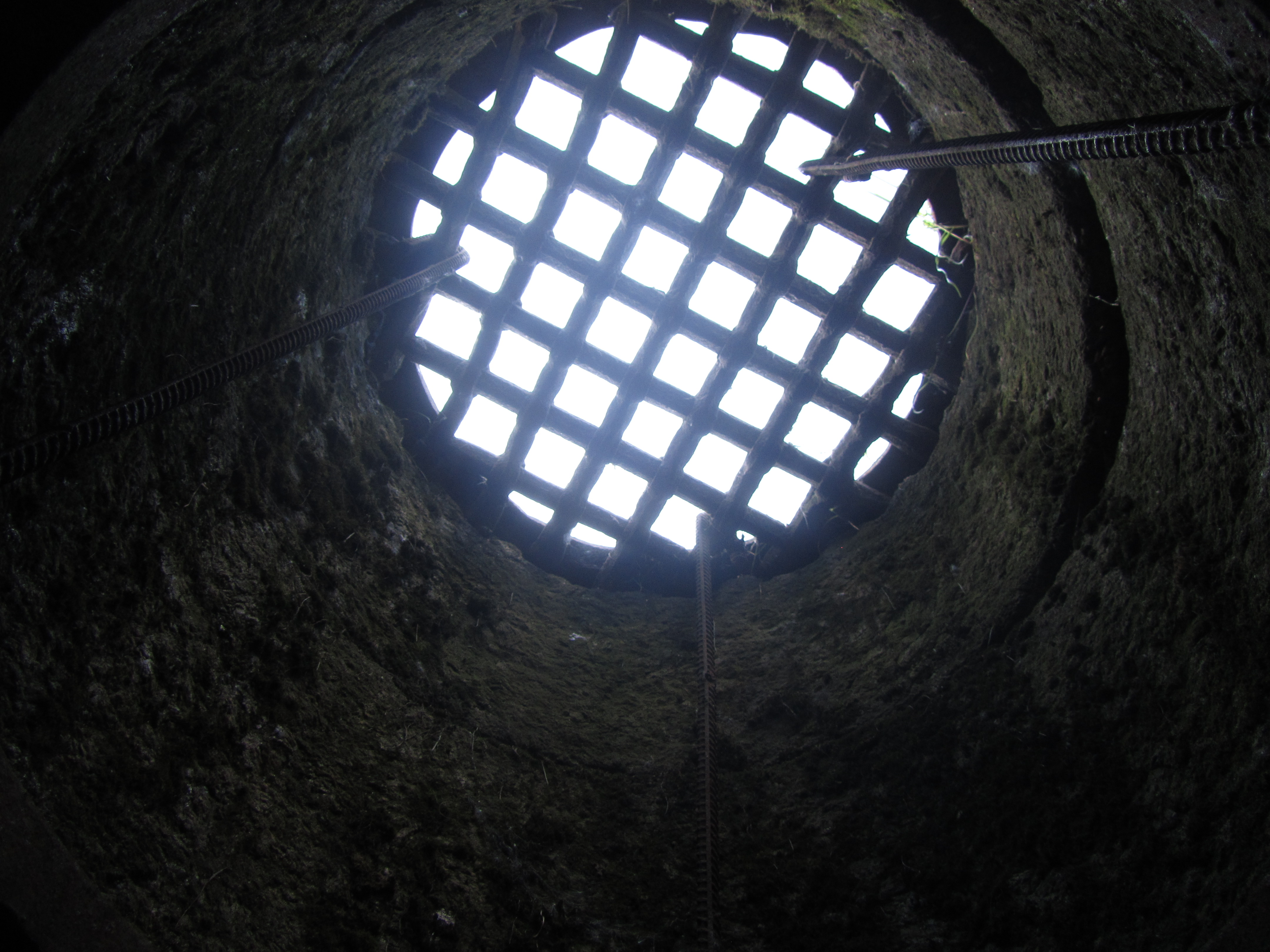 Ventilation of grotto "Echo"